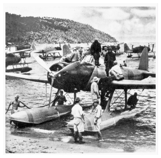 An Imperial Japanese Navy Aichi E13A seaplane, most likely from the seaplane tender Kamikawa Maru. Location of photo is unknown but may be at Deboyne Islands in May 1942 during the Battle of the Coral Sea [1].